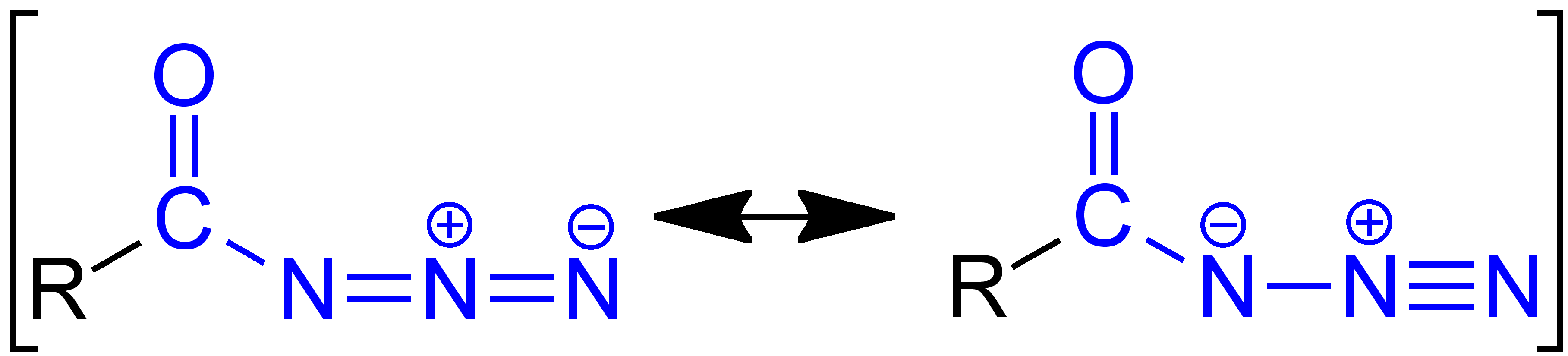 Azide_General_Formulae